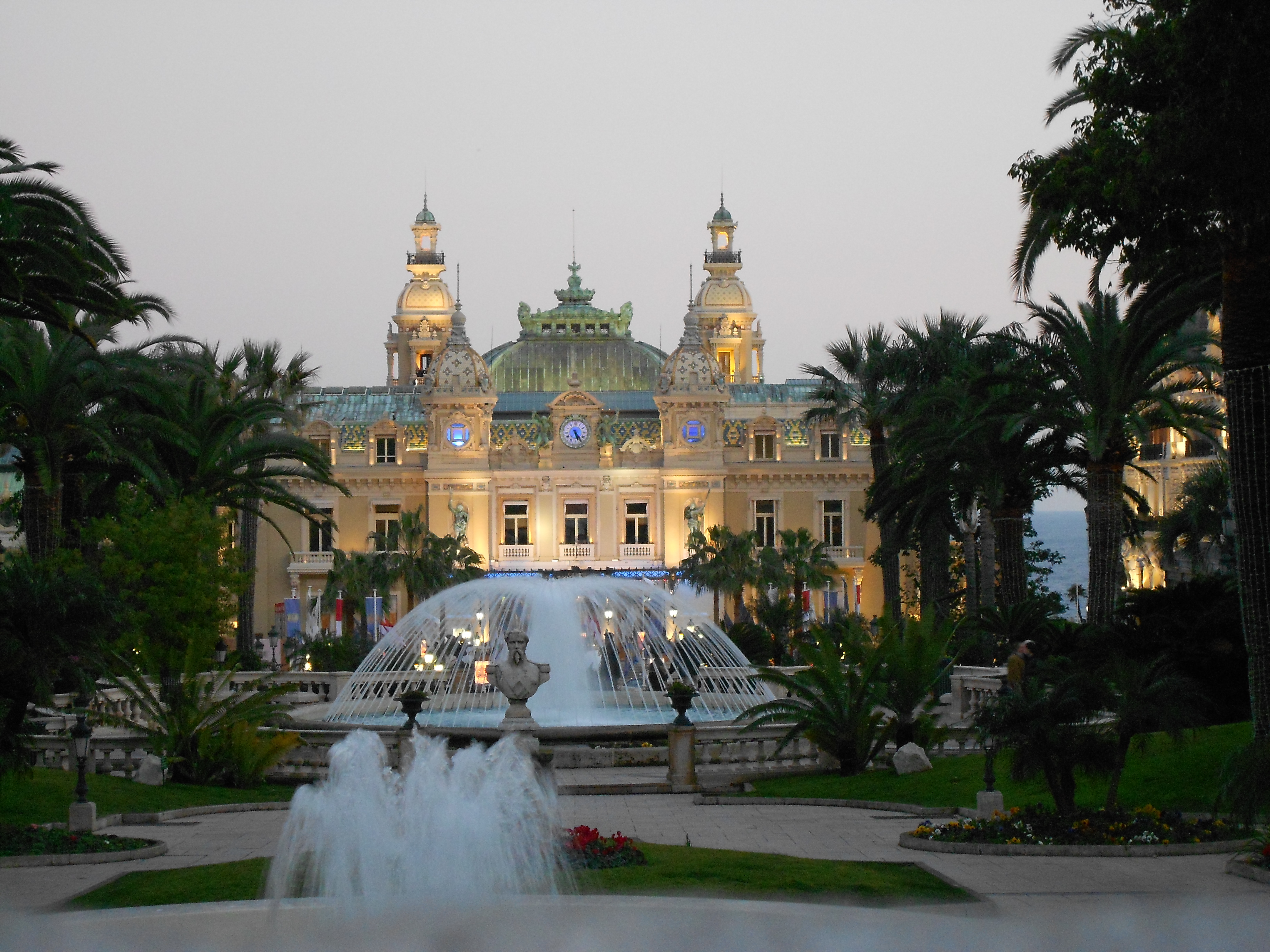 The Monte Carlo Casino in January 2012, taken from the Boulevard les Moulins at dusk.